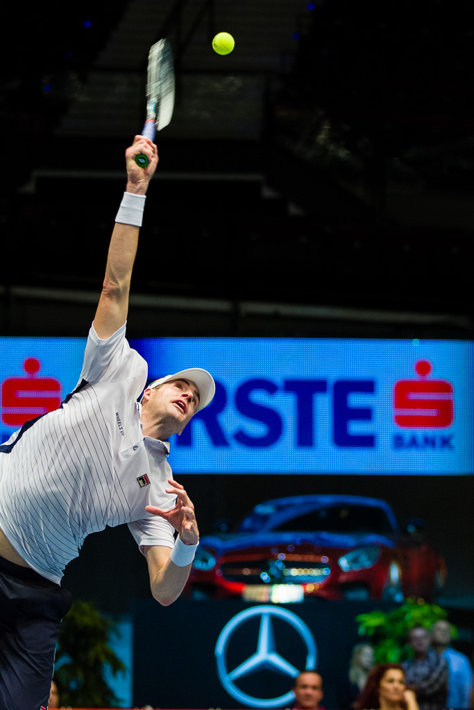 John Isner (USA) vs. Jan-Lennard Struff (GER) 1st Round at Erste Bank Open ATP World Tour 500 in Vienna 24.10.2016